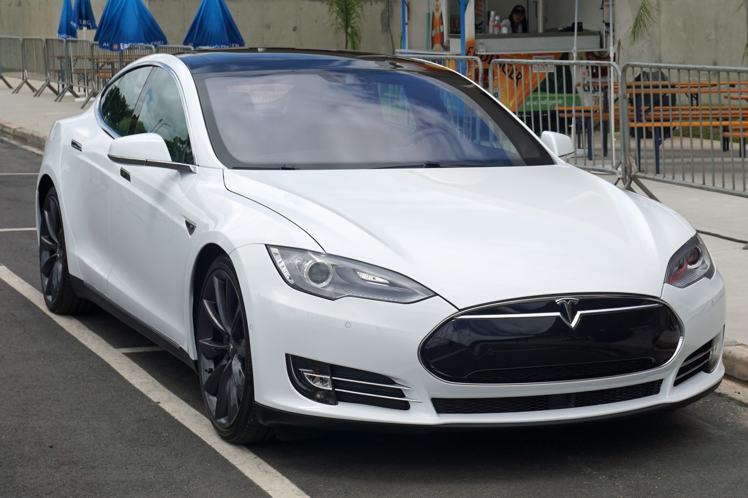 Tesla Model S 70 exhibited at the Salão Internacional do Automóvel 2016 São Paulo, Brazil